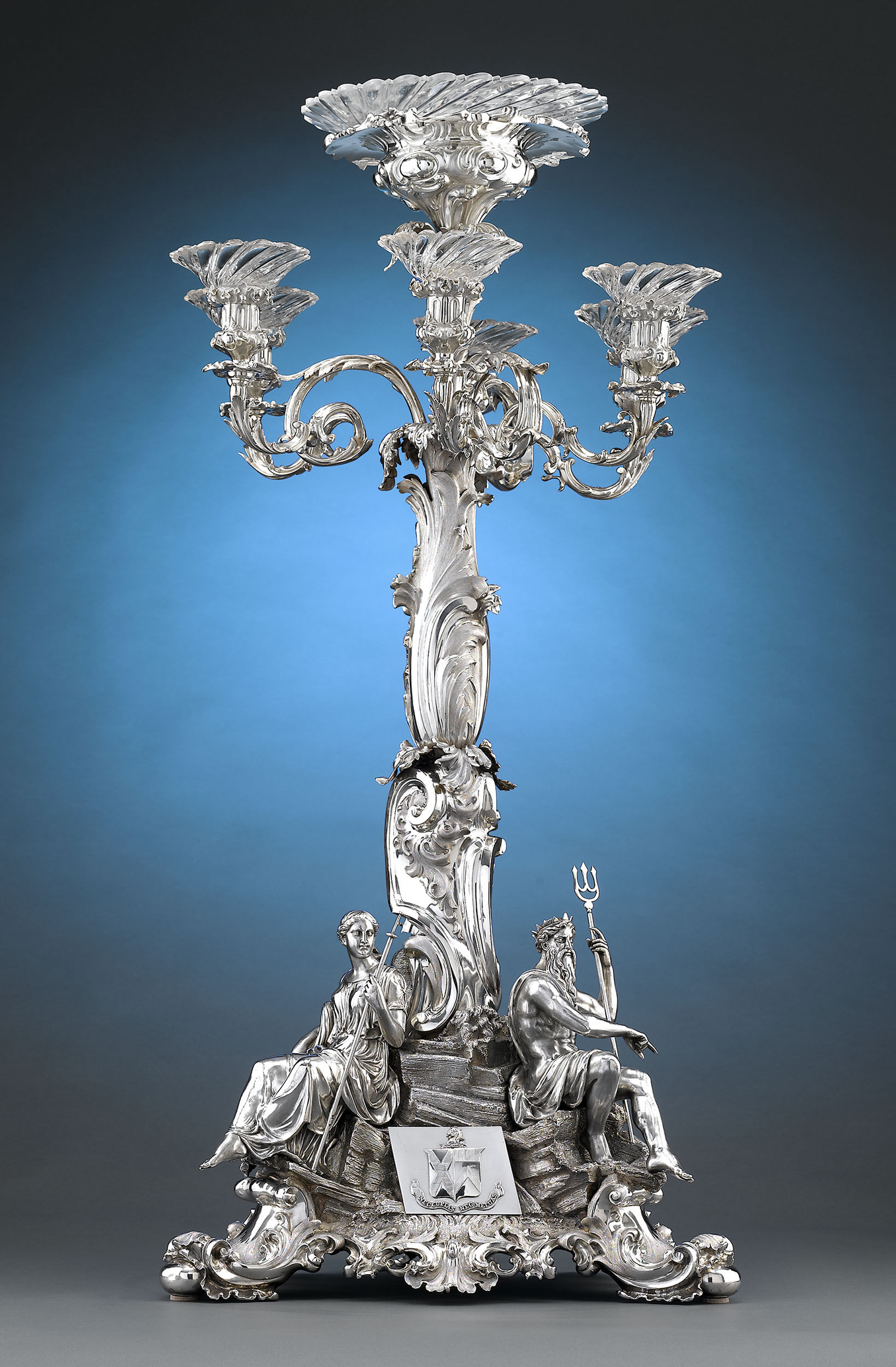 Victoria Bridge Silver Epergne, Hallmarked London, 1854. The inscription reads "Presented to / William York Esqr. / by a few friends as an expression of their / high estimate of his Character & worth / as a private Gentleman, as Deacon, / Convener of the Trade House, as a / Member of the City Council and as / the successful Builder of / Victoria Bridge / Glasgow 1854."